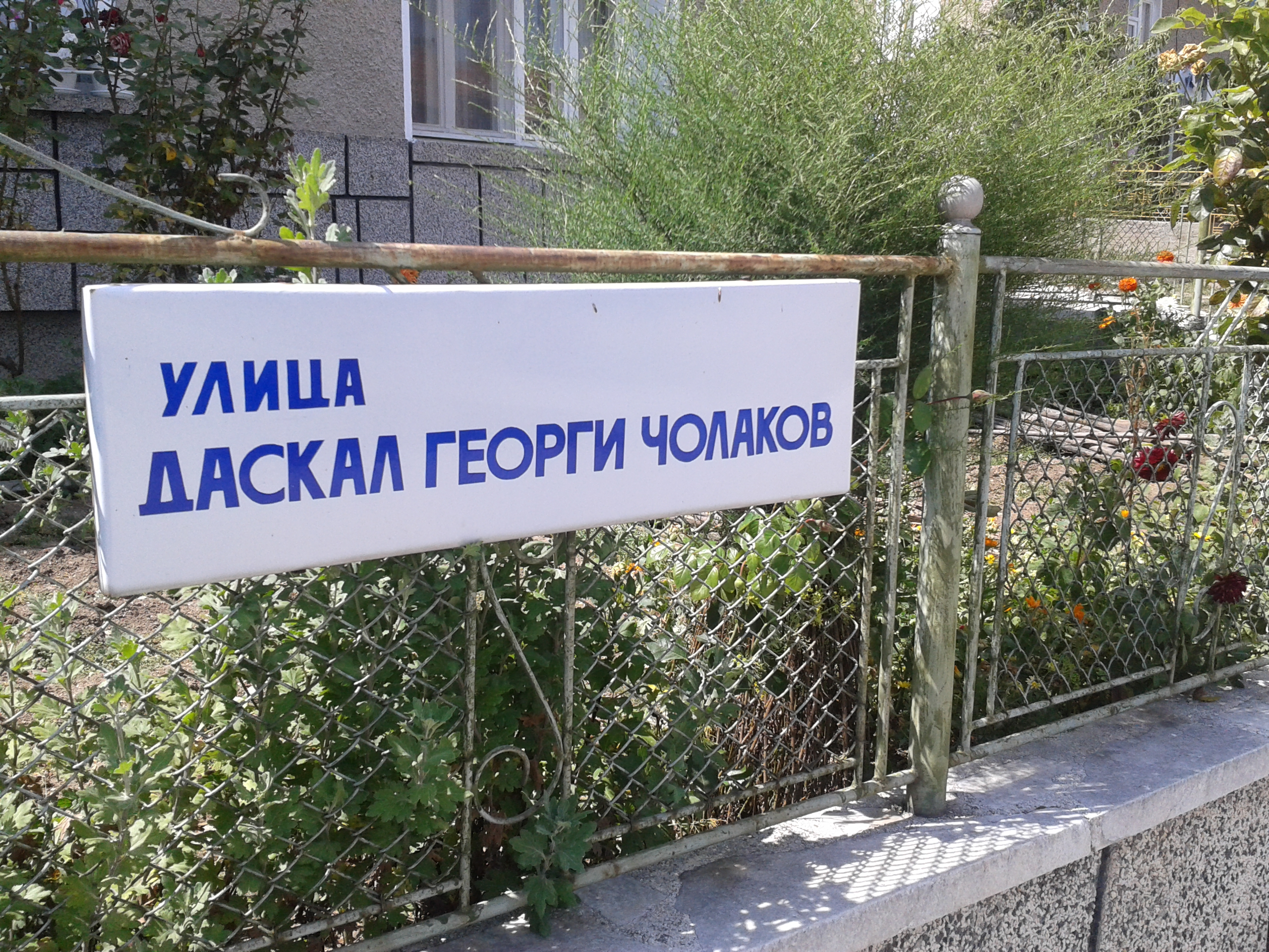 Georgi Cholakov Street in Kamenitsa, Velingrad.